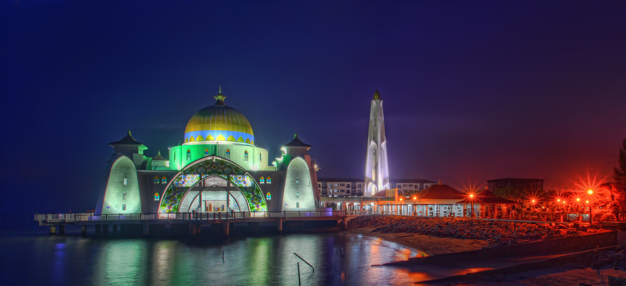 The Melaka Straits Mosque was built on Pulai Melaka combining the craftsmanship of the Middle Eastems and the Malays. It is situated facing the Melaka Straits on a 1.8 hectare land. It is the latest landmark showcasing the excellence and glorious modem islamic craftsmanship. The mosque was officially opened by HRH the Agong, Tunku Syed Sirajuddin Ibni Al-Marhum Tunku Syes Putra Jamalullai on November 24, 2006 (5 Zulkaedah 1427H). Apart from serving as a house of worship, it has also become a tourist destination